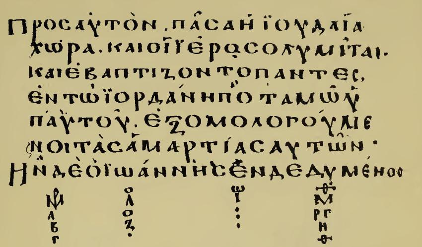 text of Mark 1:5-6 from facsimile edition of the codex